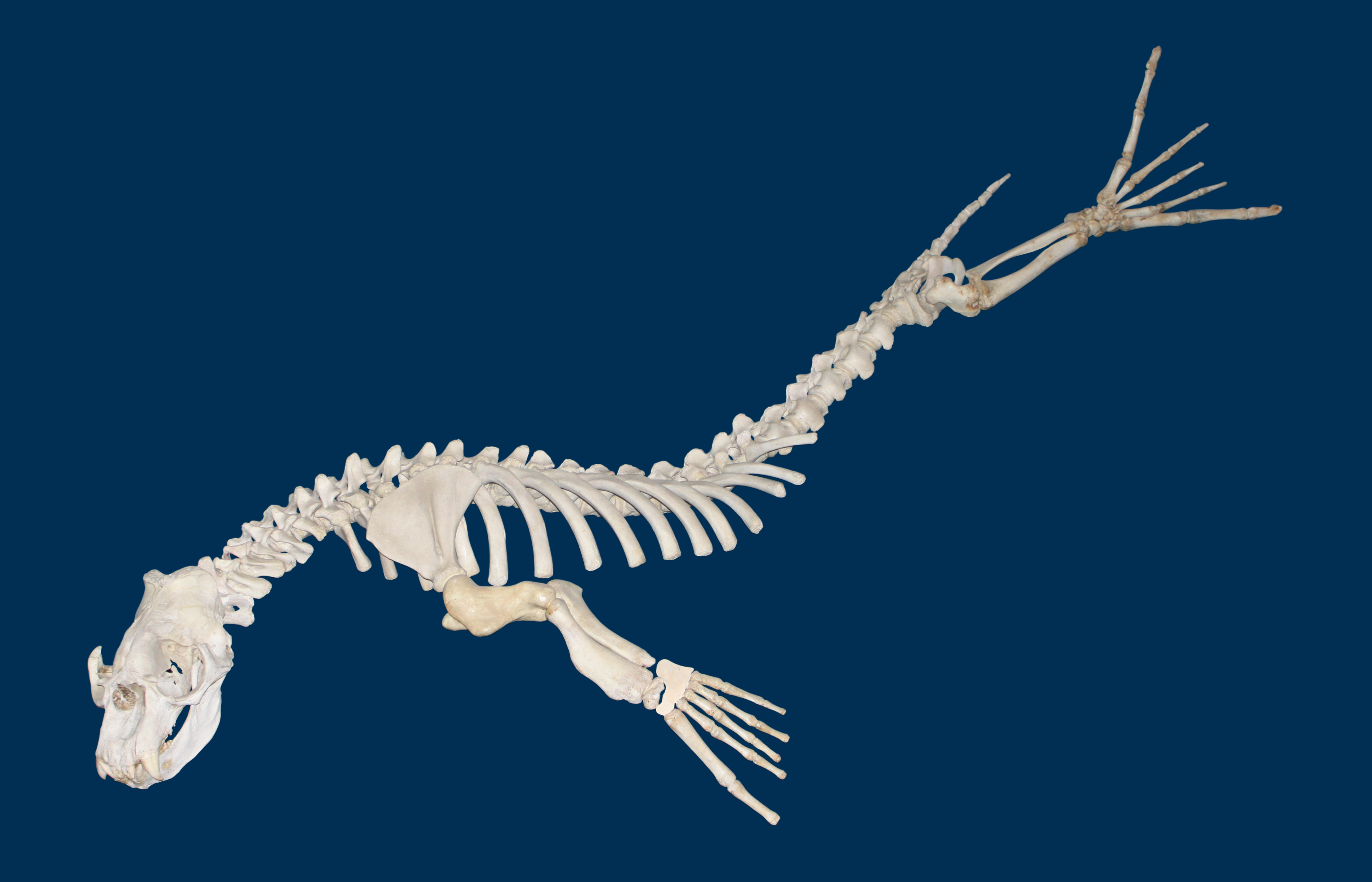 Mirounga leonina, Phocidae, Southern Elephant Seal, male, skeleton; Staatliches Museum für Naturkunde Karlsruhe, Germany.